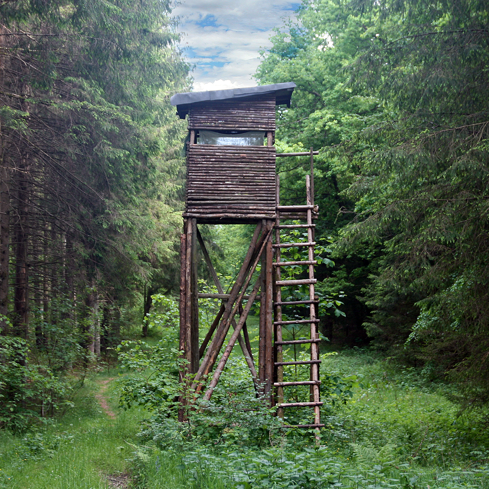 Enclosed (“box type”) and elevated hunting blind/shooting stand, presumably in Germany or Austria